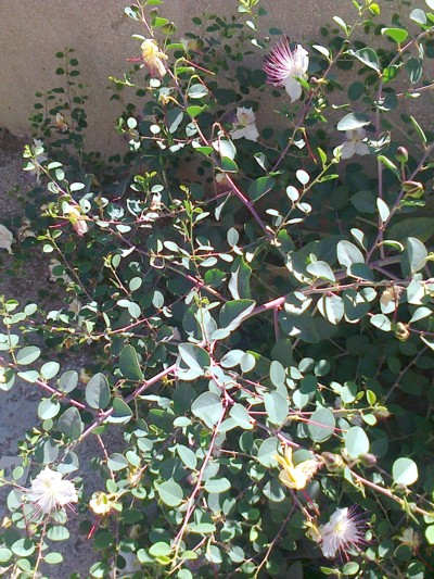 a flowering caper plant in Israel, buds yielding flowers. The image can be used in any article discussing capers, botany, Israel, flora of the Mediterranean basin.